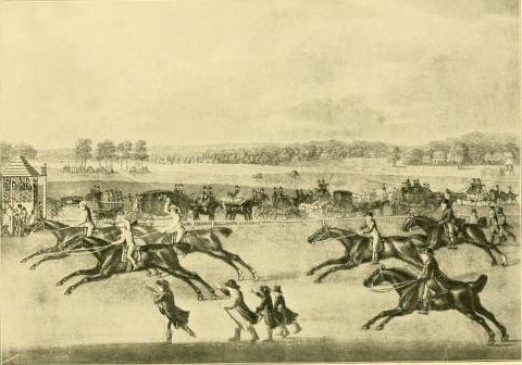 Ascot 1791, Oatlands Sweepstake (engraving after Sartorius) - showing the Prince of Wales' horse "Baronet" coming in first, followed by "Express", "Chanticleer" and "Skylark"